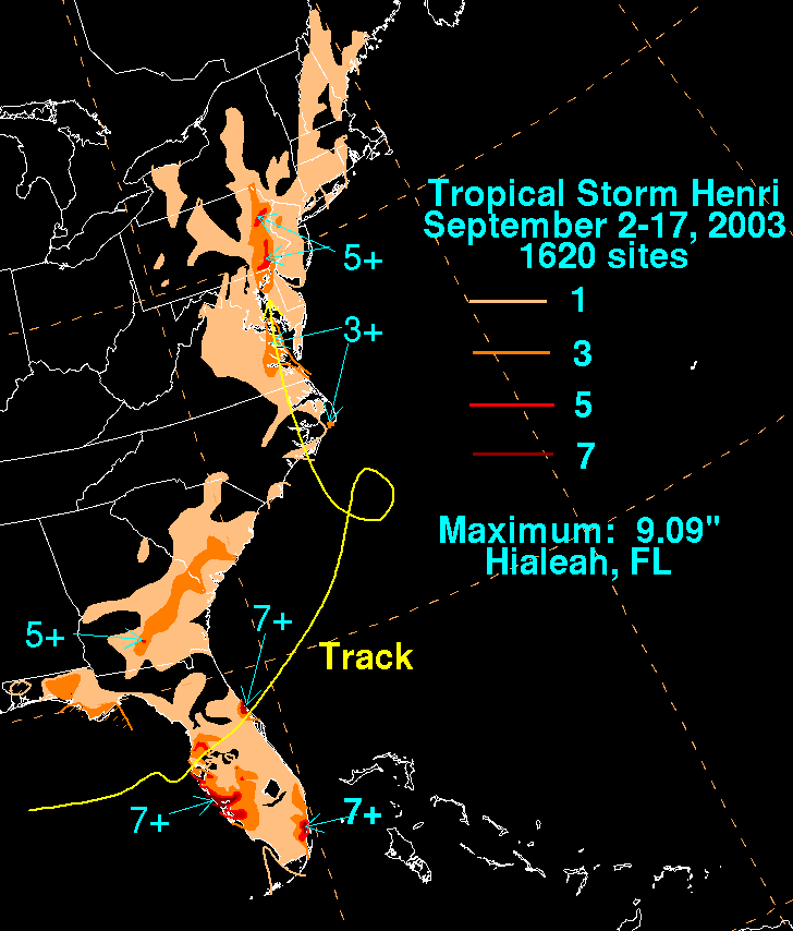 Rainfall produced by Tropical Storm Henri during September 2003.